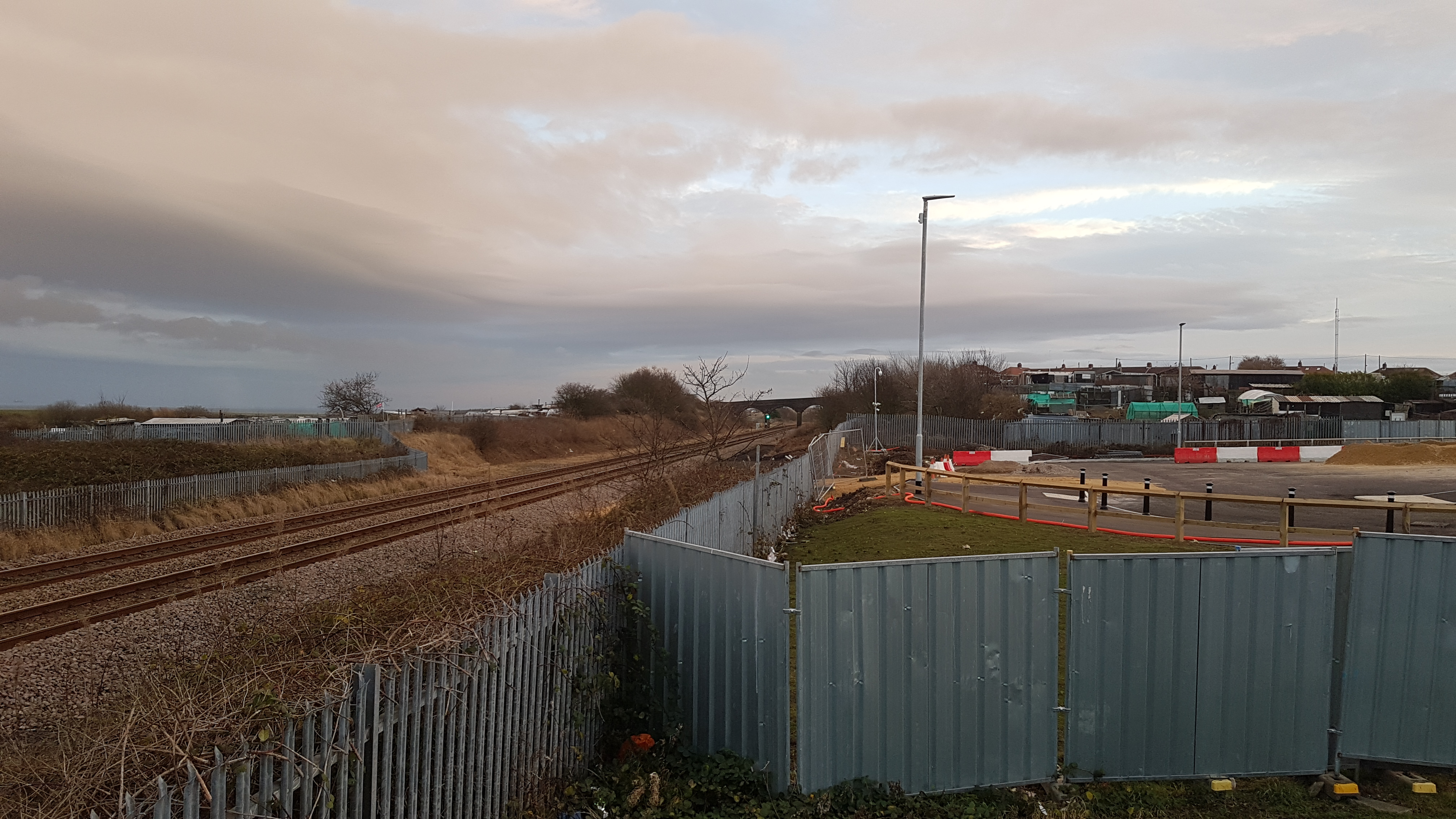 View south across the under-construction drop-off area and car park for the future Horden Peterlee Railway Station. The area beyond the bollards in the centre of the image may be the planned bus stop or drop off facilities for the station. The platforms (not completed at this time) are located beyond the hoardings in the left of the image, this side of the overbridge. Evidence of initial works in the construction of the down platform are evident in the apparently scraped ground, immediately to the right of the tracks.